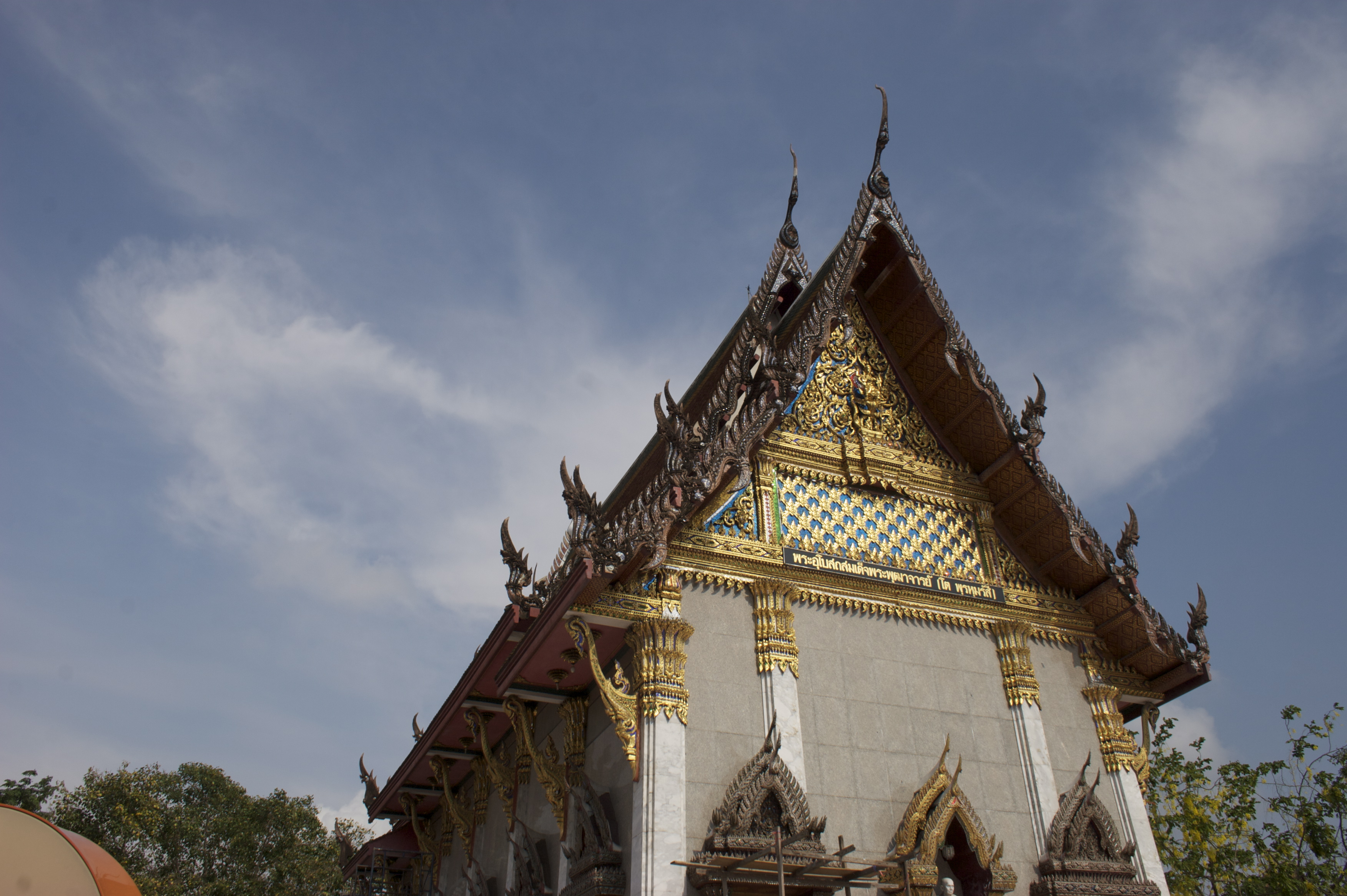 Wat Intharawihan